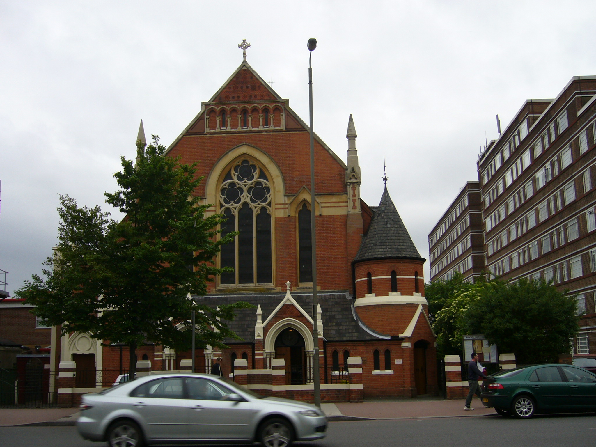 The Polish Roman Catholic Church of Christ the King at grid reference TQ282729 in Balham High Road, Balham, London. Part of Du Cane Court can be seen on the right.